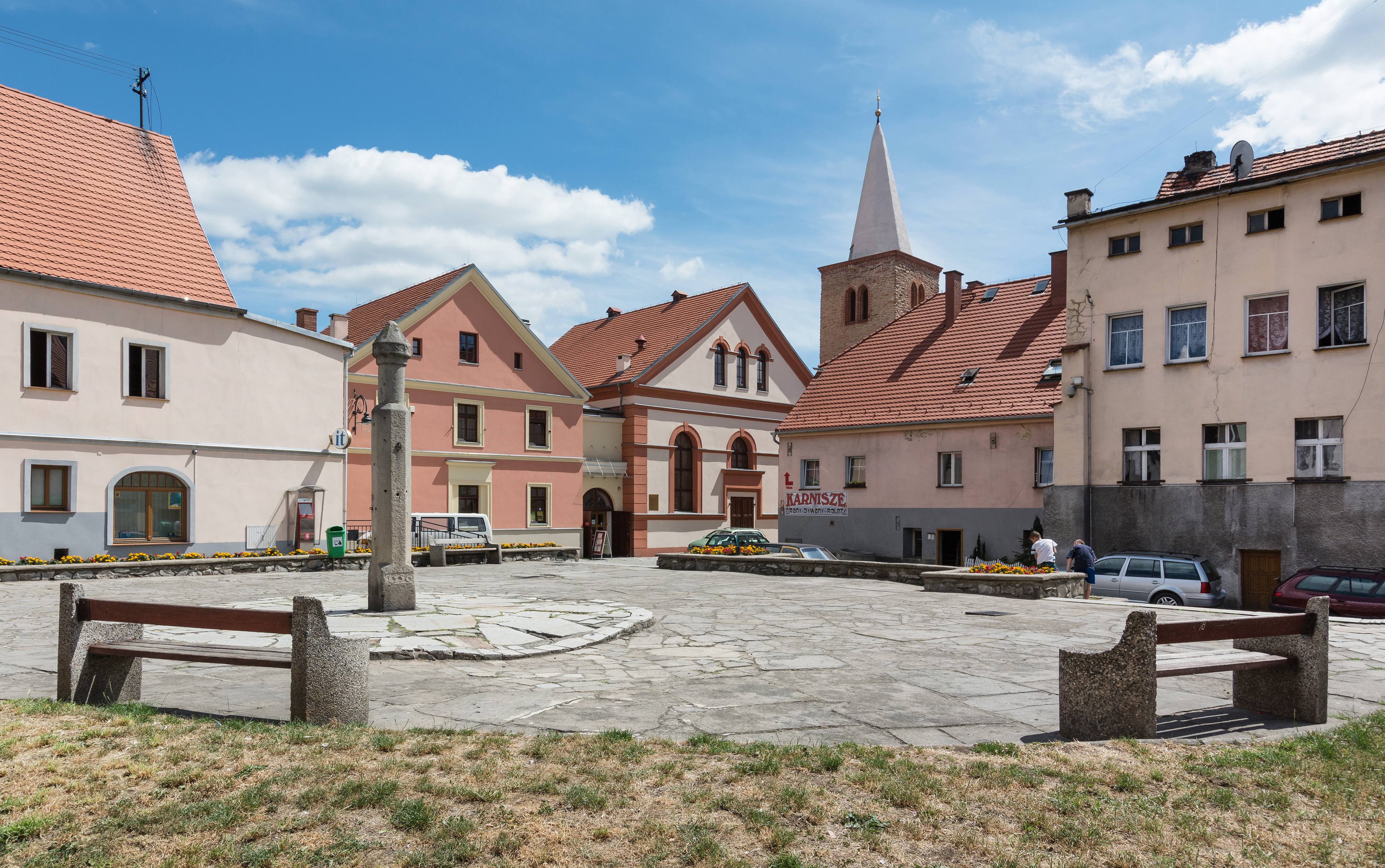 Little Market Square in Bystrzyca Kłodzka Ta fotografia przedstawia zabytek wpisany do rejestru zabytków pod numerem ID 592394